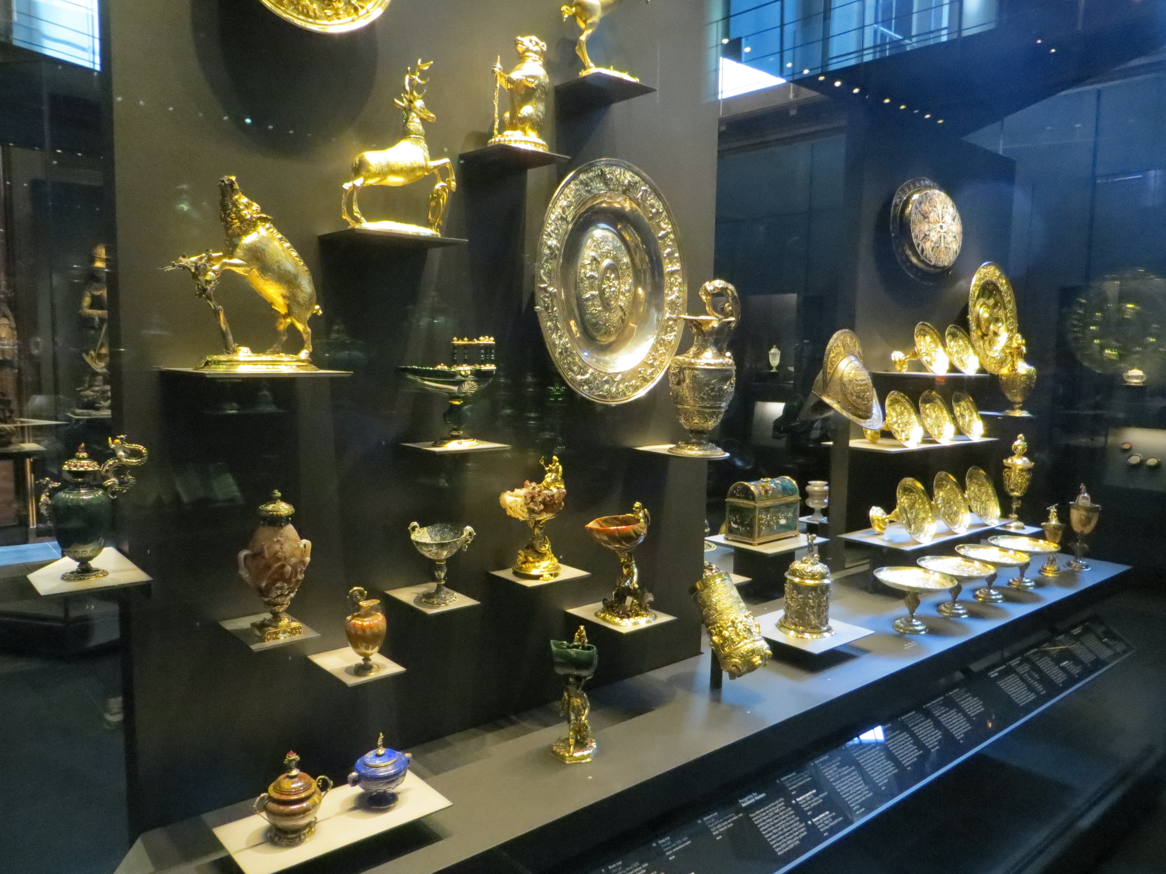 Part of the Waddesdon Request on display in the British Museum